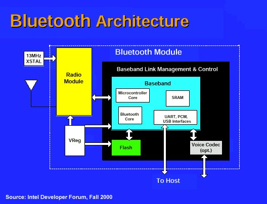 arhitektura bluetooth